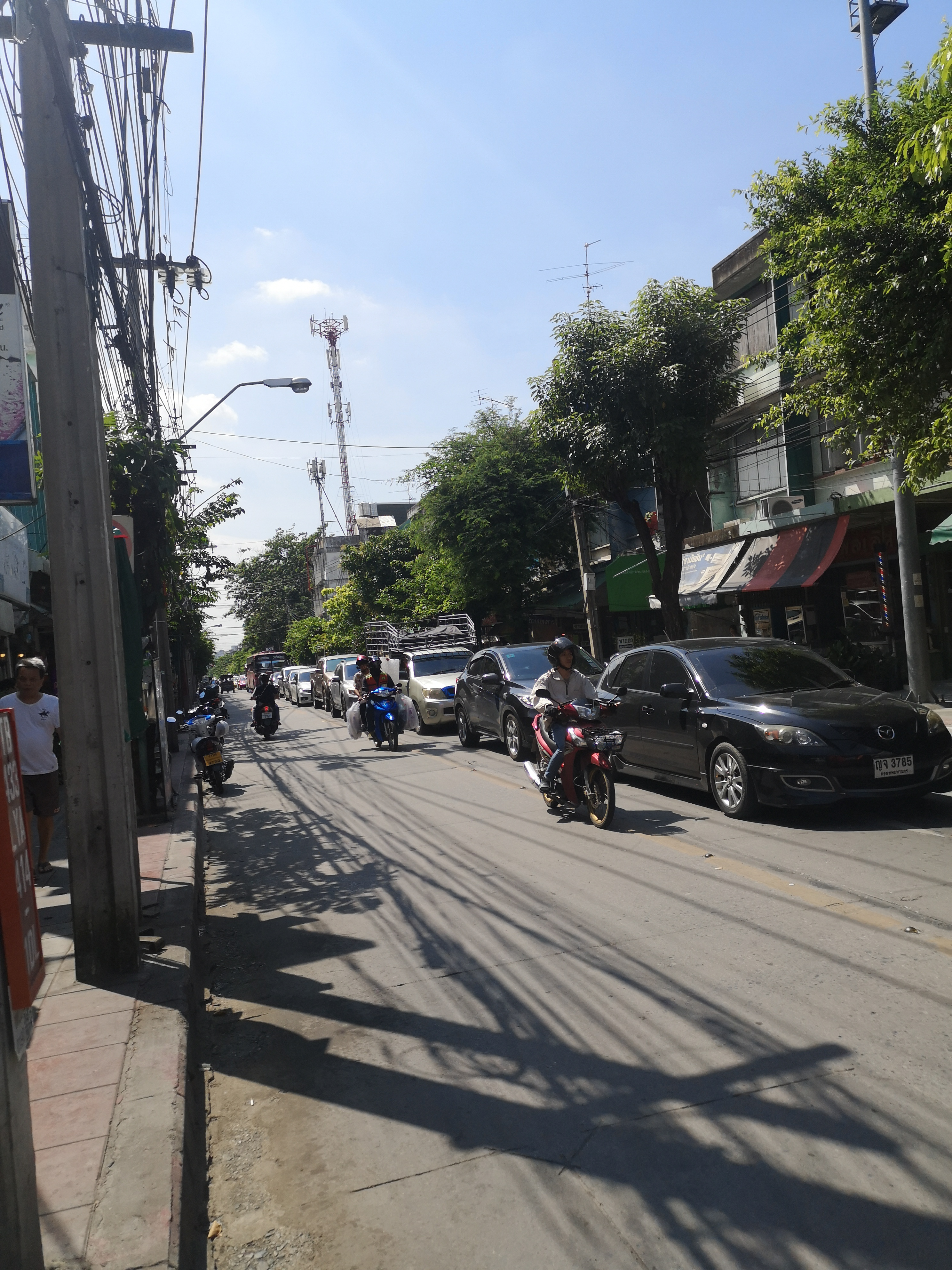 Thanon Charoen Rat